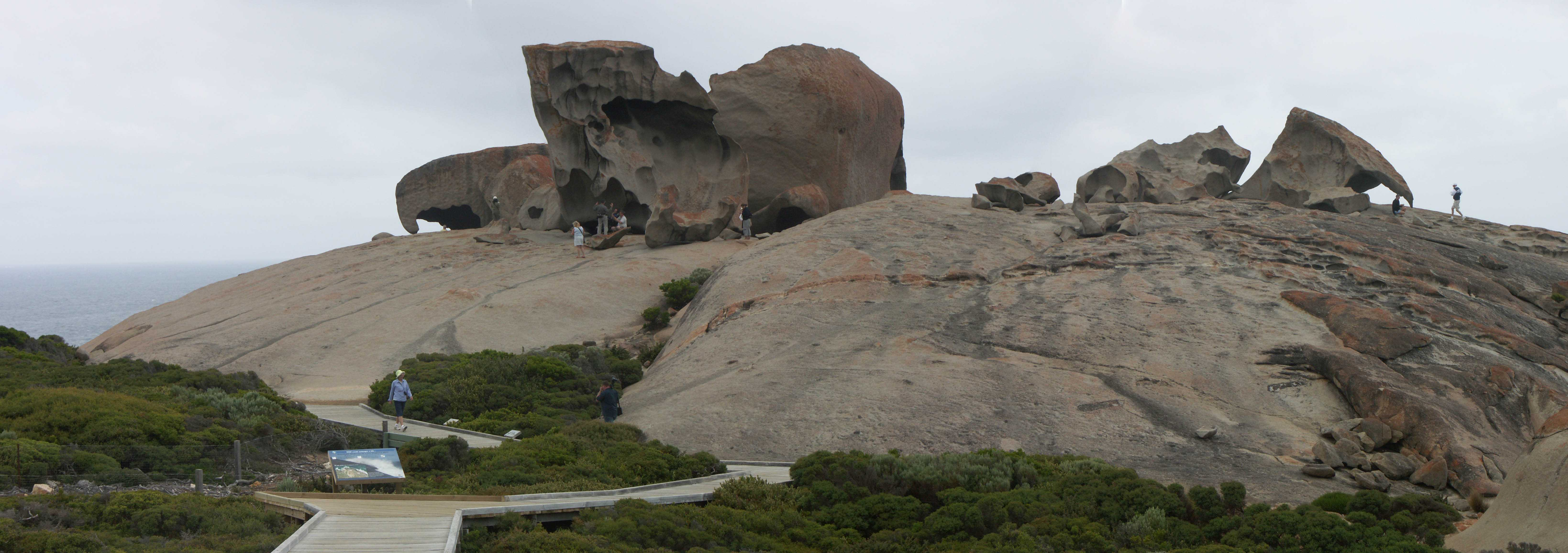 Remarkable Rocks - Kangaroo Island - South Australia (Panorama made of 3 pictures)